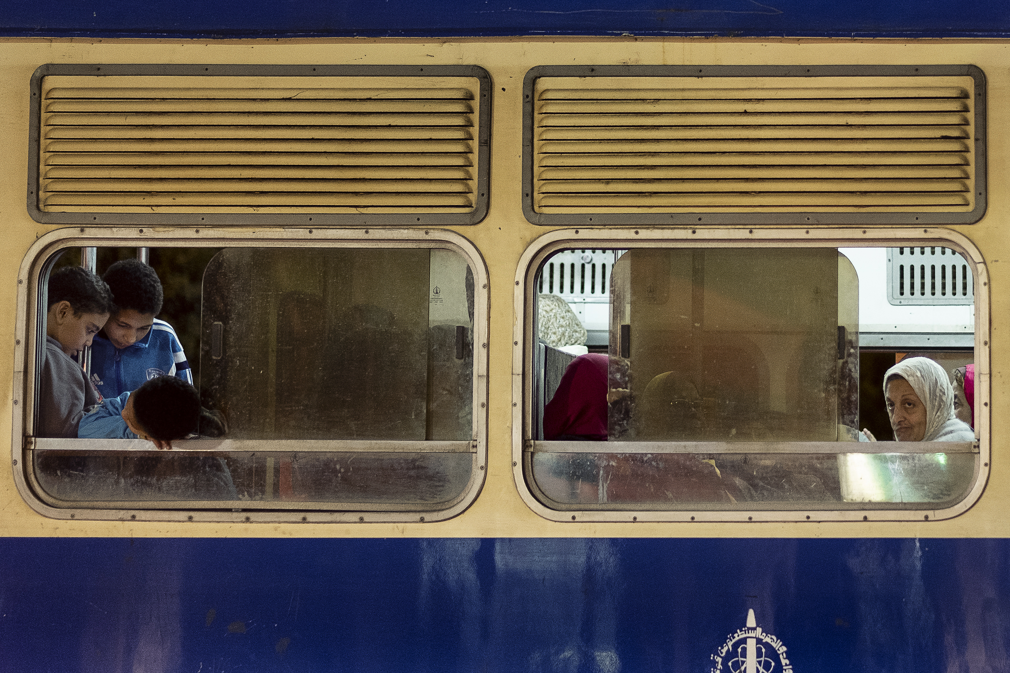 old women 3 young boys everyone have own thoughts about future This is an image with the theme "Africa on the Move or Transport" from: Egypt